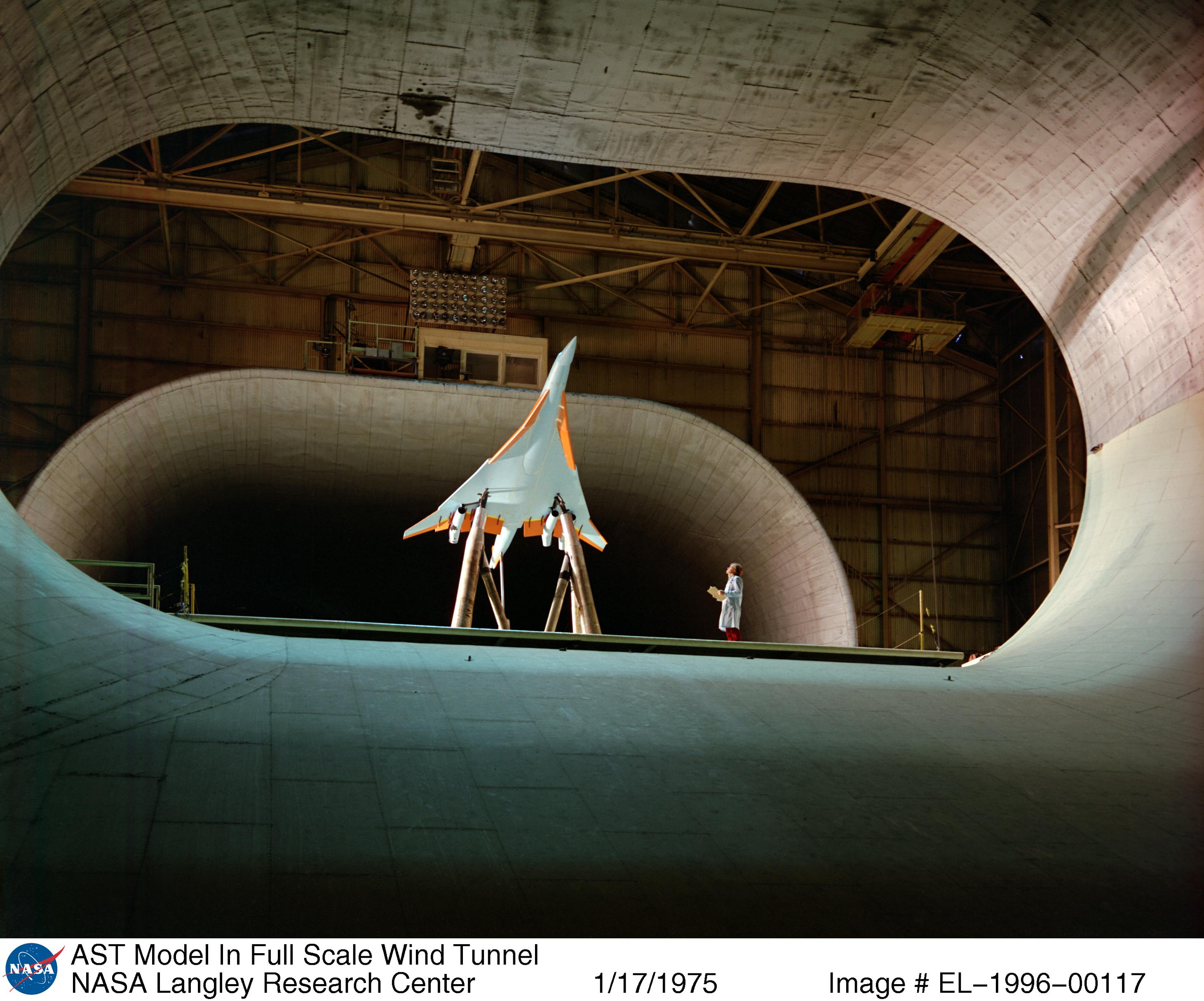 A modell of the in the 1970s planed "Advanced Supersonic Transport (AST)" in .